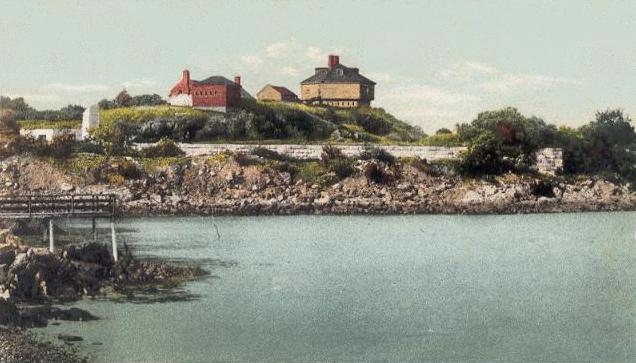 Fort McClary, Kittery Point, ME; from a 1904 postcard. The early coastal defense is now part of the Fort McClary State Historic Site.